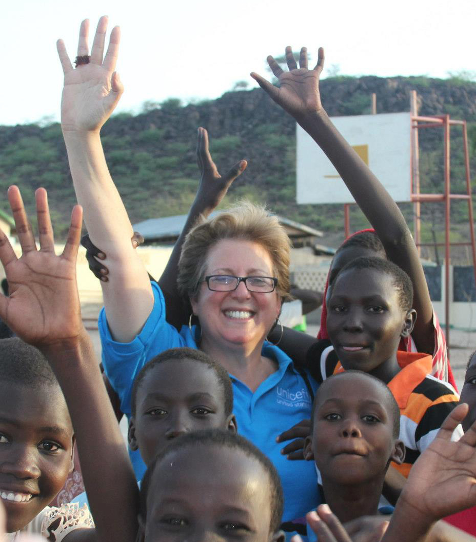 U.S. Fund for UNICEF C.E.O. Caryl M. Stern on a field visit to Kenya in September 2012. Kenya field visit.jpg.